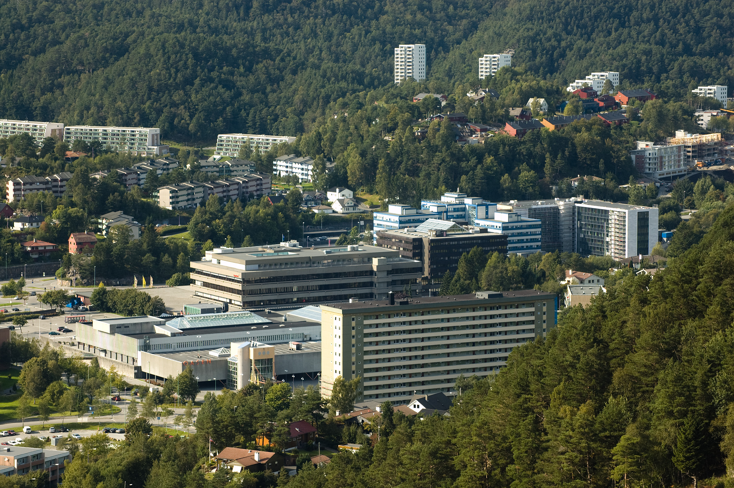 Oasen, a shopping centre in Fyllingsdalen, Bergen, Norway.